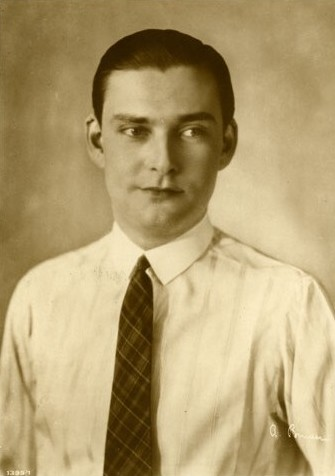 1927 portrait of German actor Harry Halm (1901-1980) by Alexander Binder.